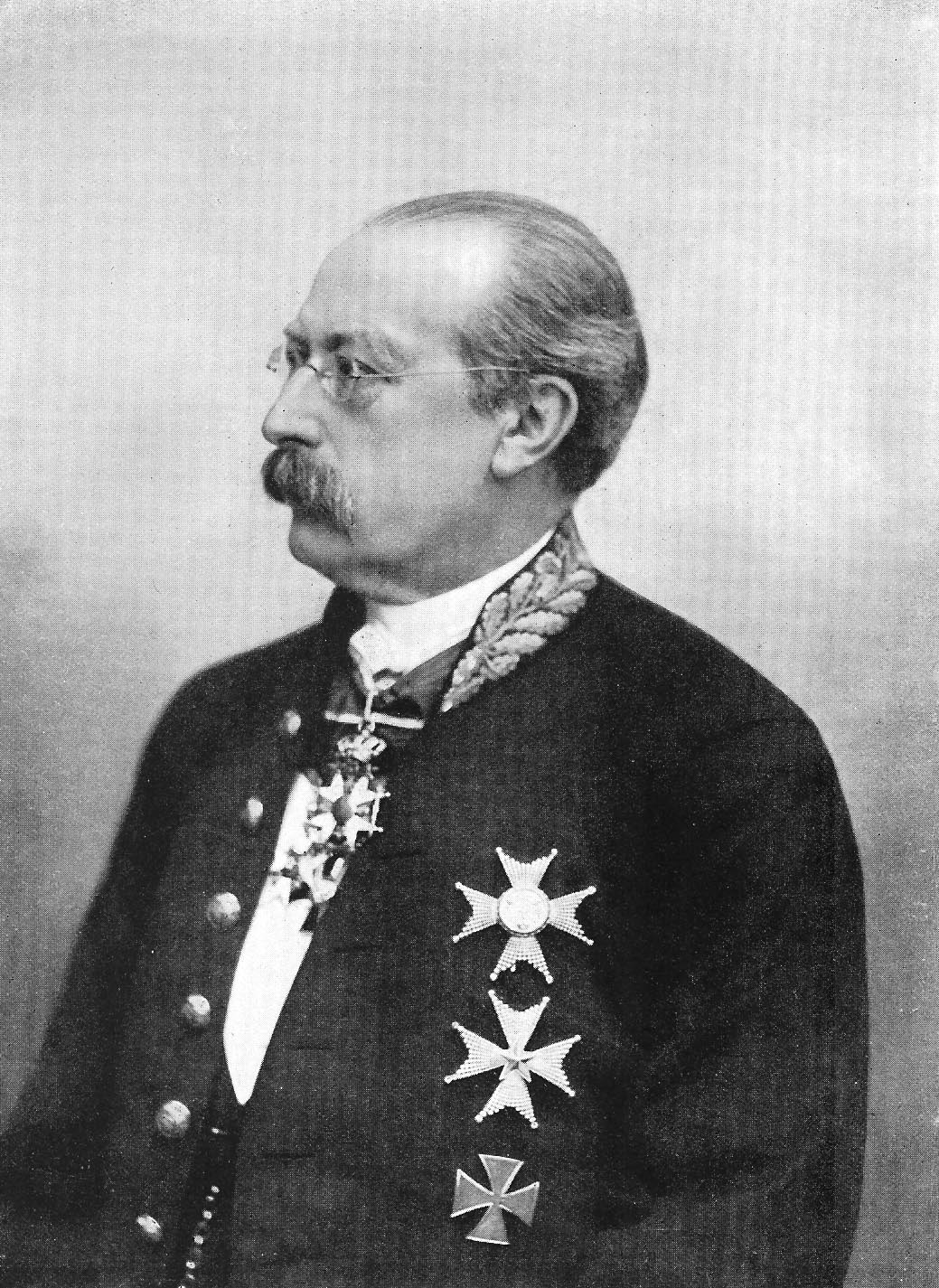 Swedish politician Gustaf Snoilsky (1833-1897)